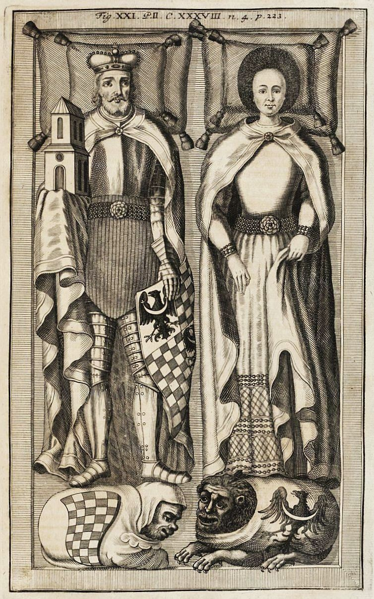 Wenceslaus I (1310/18-1364), Duke of Legnica